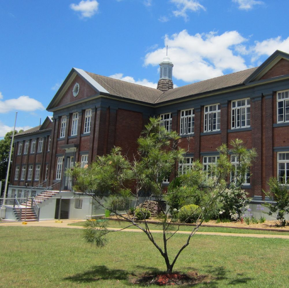 Toowoomba North State School, Depression-era Brick School Building, North elevation